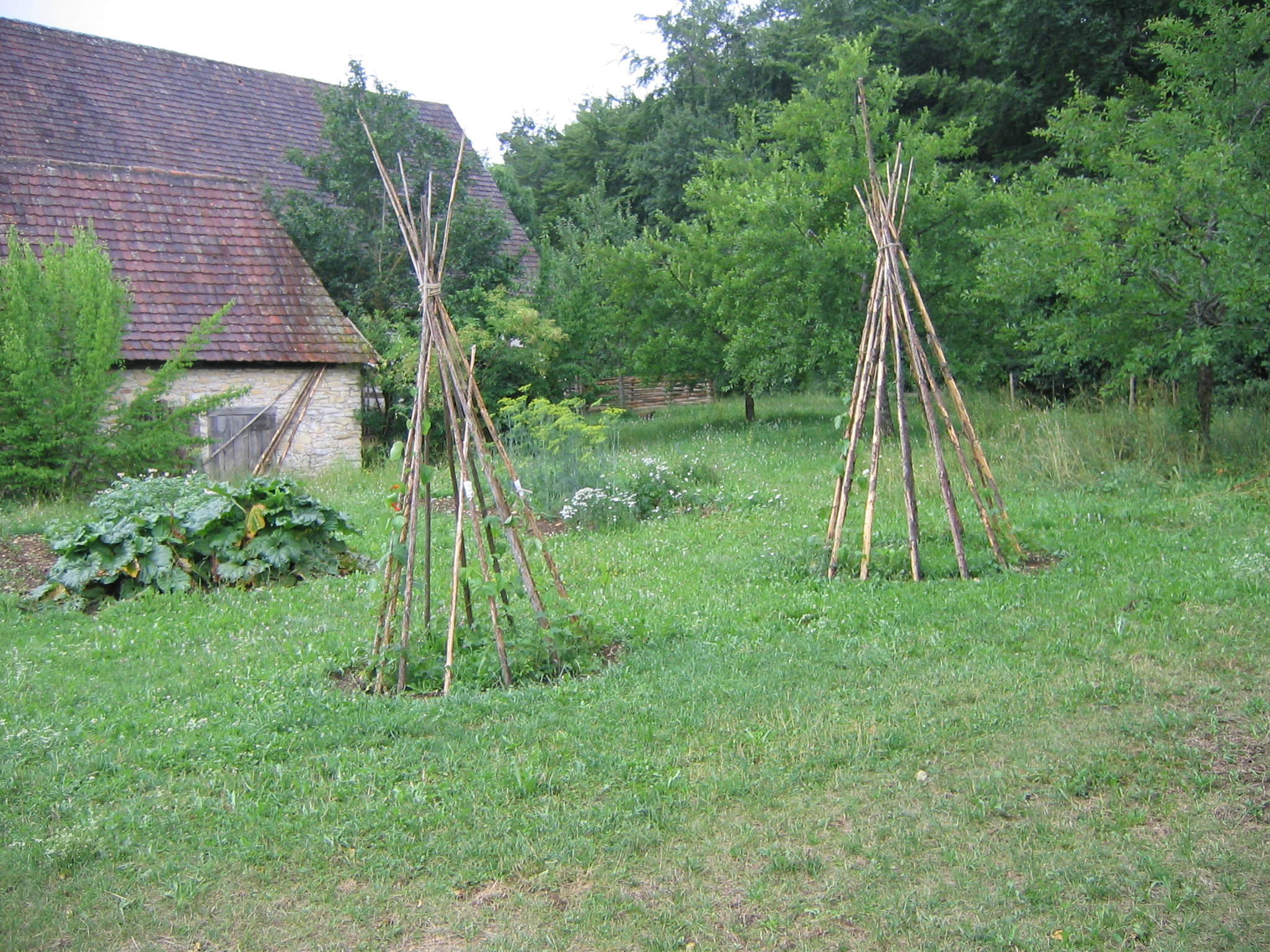 Beanpoles at the Freilichtmuseum Neuhausen ob Eck